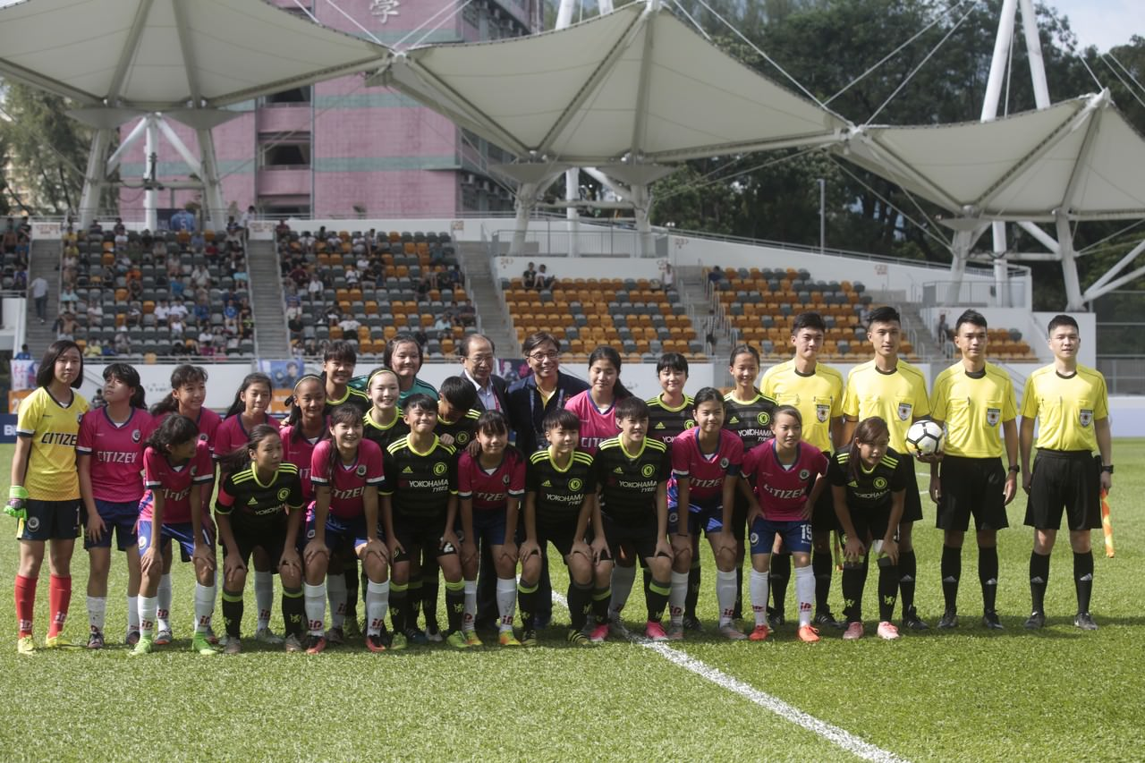 2017 HK Community Cup Girls Community Cup